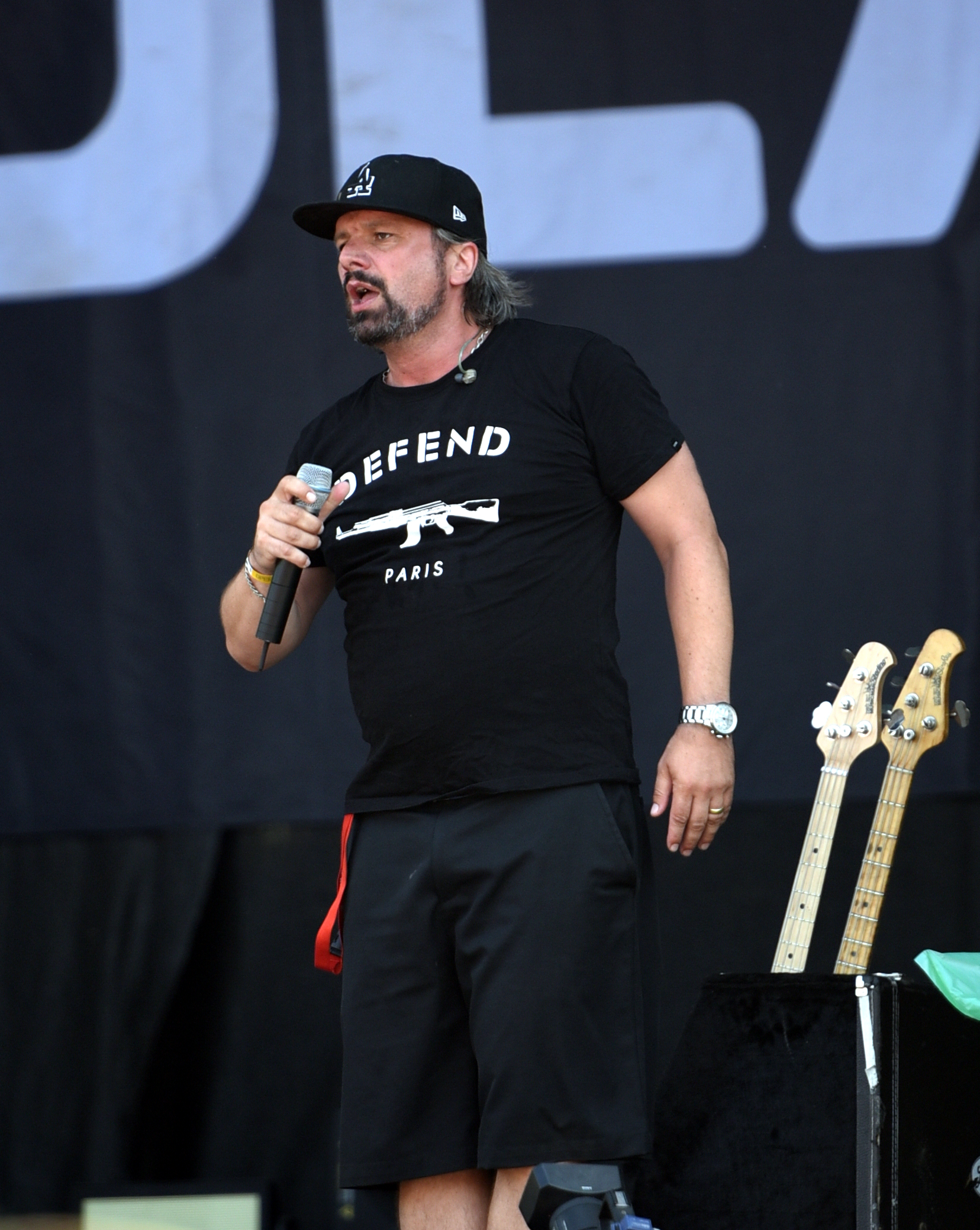 H-Blockx at the Open Flair festival 2015 in Eschwege, Germany.